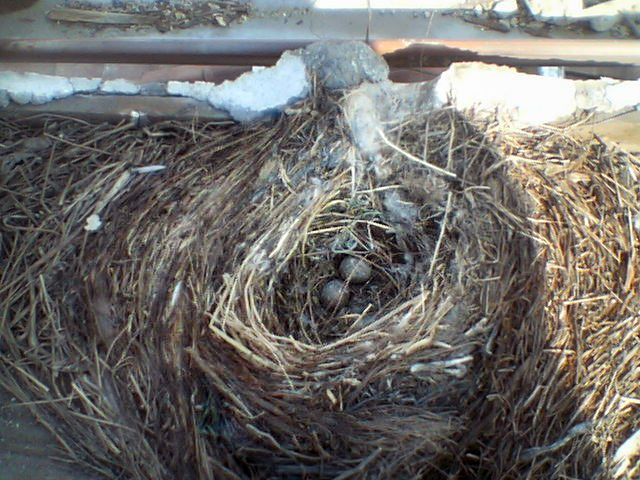 Nest of Passer montanus (under roof tiles, Japan) 撮影データ (Data) 撮影地 (Place): 関東地方, Kanto region 撮影年月日 (Date): 2005年08月30日 (08:47@JST, 30-Aug-2005) 撮影者 (Photographed by): Koba-chan ライセンス (Licence): GFDL, cc-by-sa-2.5 備考 (Contents): 木造家屋の屋根瓦の狭い空間に作られた直径5-6cm、深さ4cm程度の椀状に凹んだ巣。卵の長径は1.5cm、短径は1cm程度で色は薄い茶色がかった灰色。巣の材質は主に枯草。瓦1枚の寸法は約30cm。 This is a photograph of a Sparrow's nest, made under the small space of the roof tiles of a wooden house in Japan. The bowl-shaped nest has a diameter 5-6cm and a depth of approximately 4cm. The eggs are lightish-brown to grey in colour, and are 1.5cm in diameter at the head and 1cm at the short end. The nest is mainly made of grass. The size of a roof tile is about 30cm by 30cm. See also. Image:Nest of Passer montanus A.jpg, Image:Nest of Passer montanus B.jpg, Image:Nest of Passer montanus C.jpg